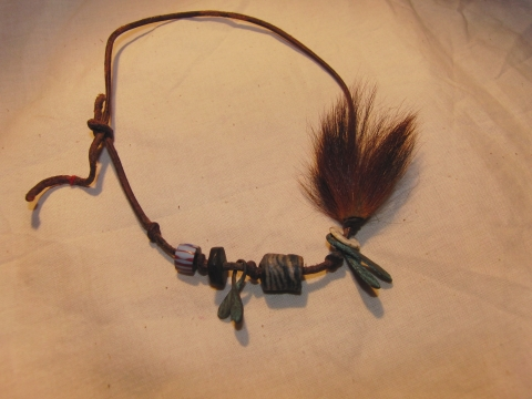 Necklace with fanery